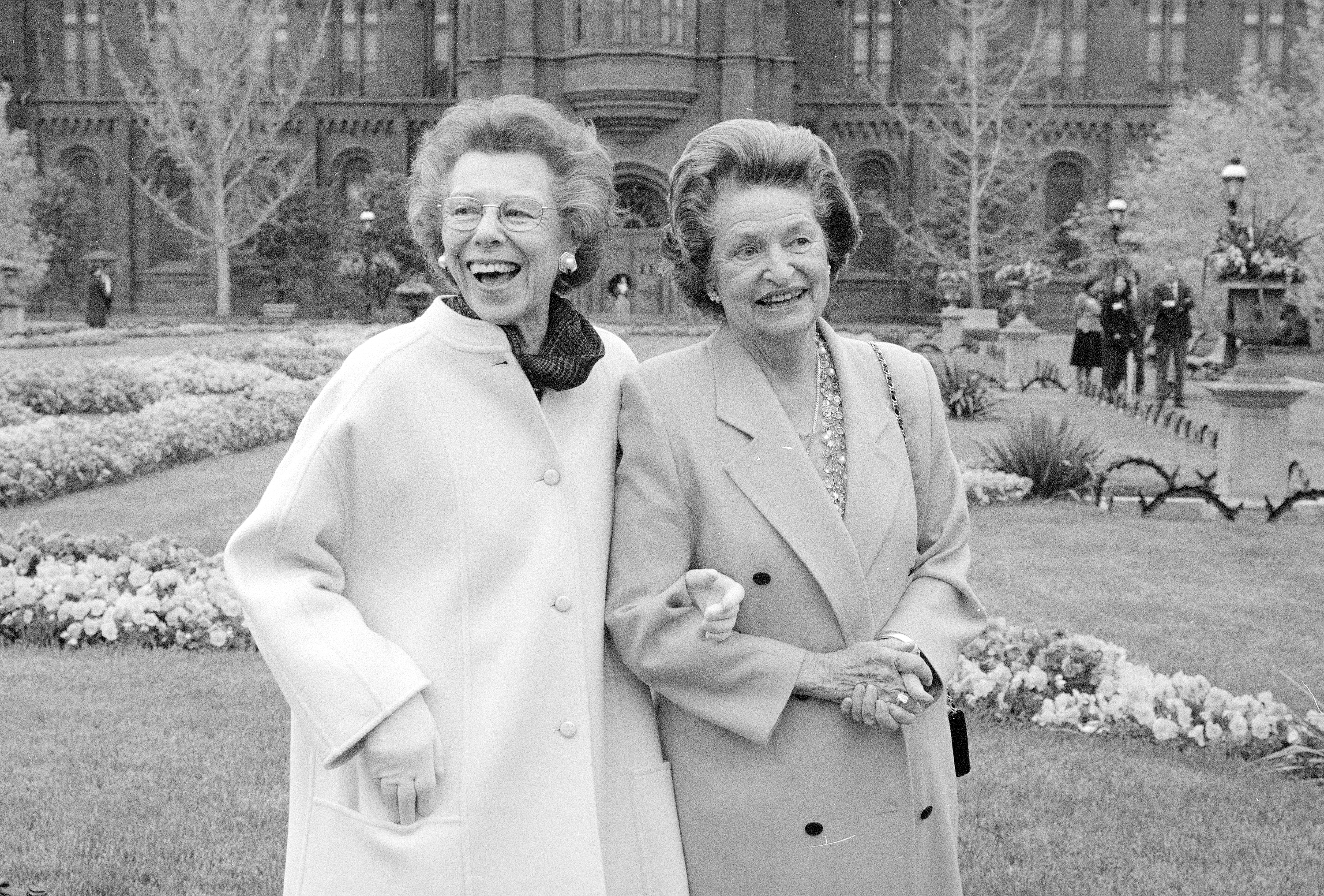 Summary: Enid A. Haupt (l.) and Lady Bird Johnson in the Enid A. Haupt Garden in the South Yard of the Castle, on their way to a celebration being held for Mrs. Johnson in the Arts and Industries Building, April 24, 1988, in honor of her 75th birthday. Mrs. Haupt, a New York philanthropist and noted supporter of horticultural projects, donated funds to build the garden over the underground complex consisting of the National Museum of African Art (NMAfA), Arthur M. Sackler Gallery (AMSG), and S. Dillon Ripley International Center (RC). Topic: Haupt, Enid A. Horticultural Services Division Smithsonian Institution Quadrangle Complex South Yard Gifts New Programs Horticulture Enid A. Haupt Garden (Washington, D.C.) Negative number: 88-8669.12.tif Notes: Image is of Enid Haupt and Lady Bird Johnson in Haupt Garden, 1988, SI Negative 88-8669.12.tif, and is featured in the Torch, June 1988. Persistent URL: Link to record Repository:Smithsonian Archives - History Division